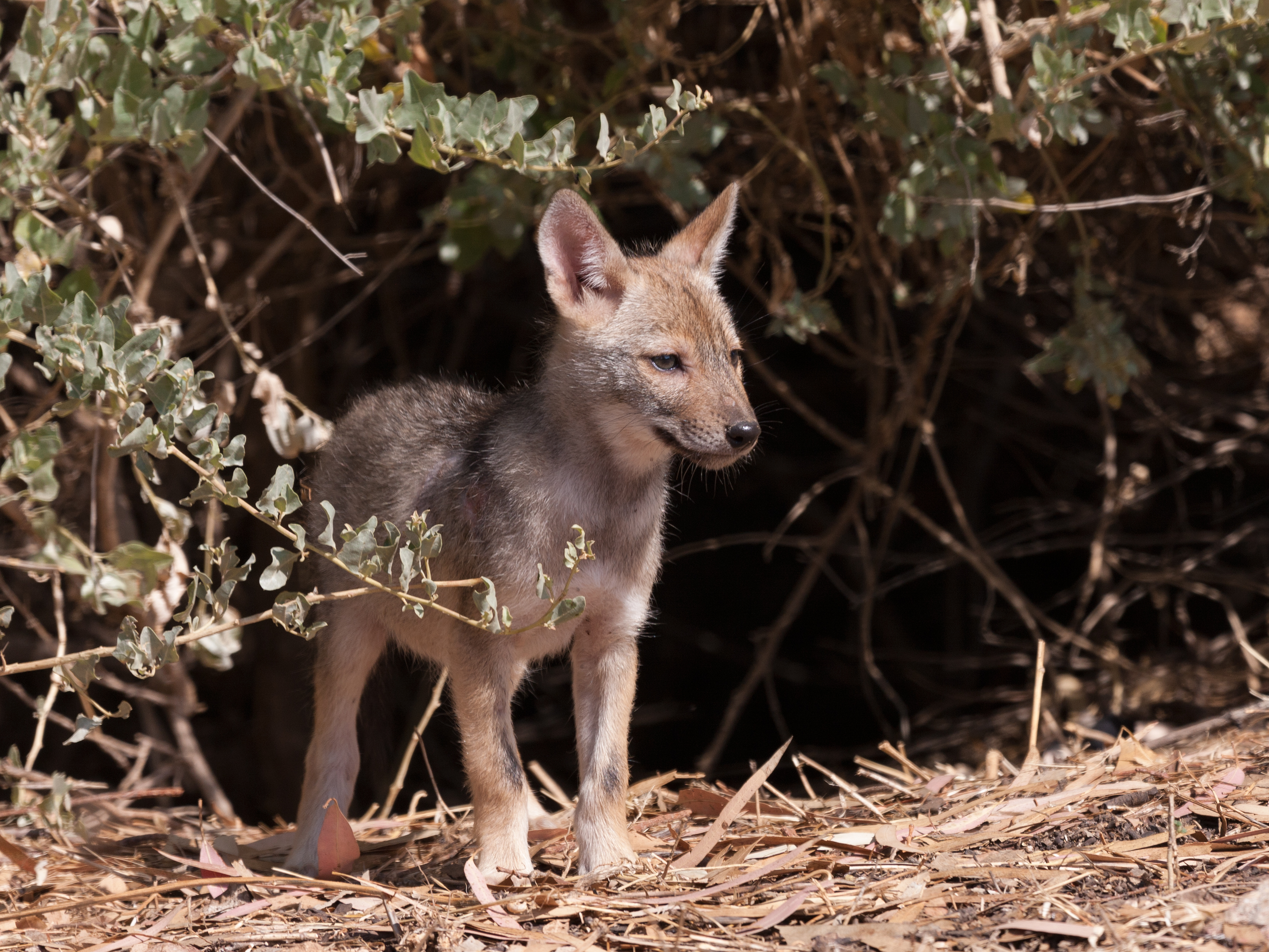 Golden jackal cub at the entrance to its lair at park Yarkon in Israel.